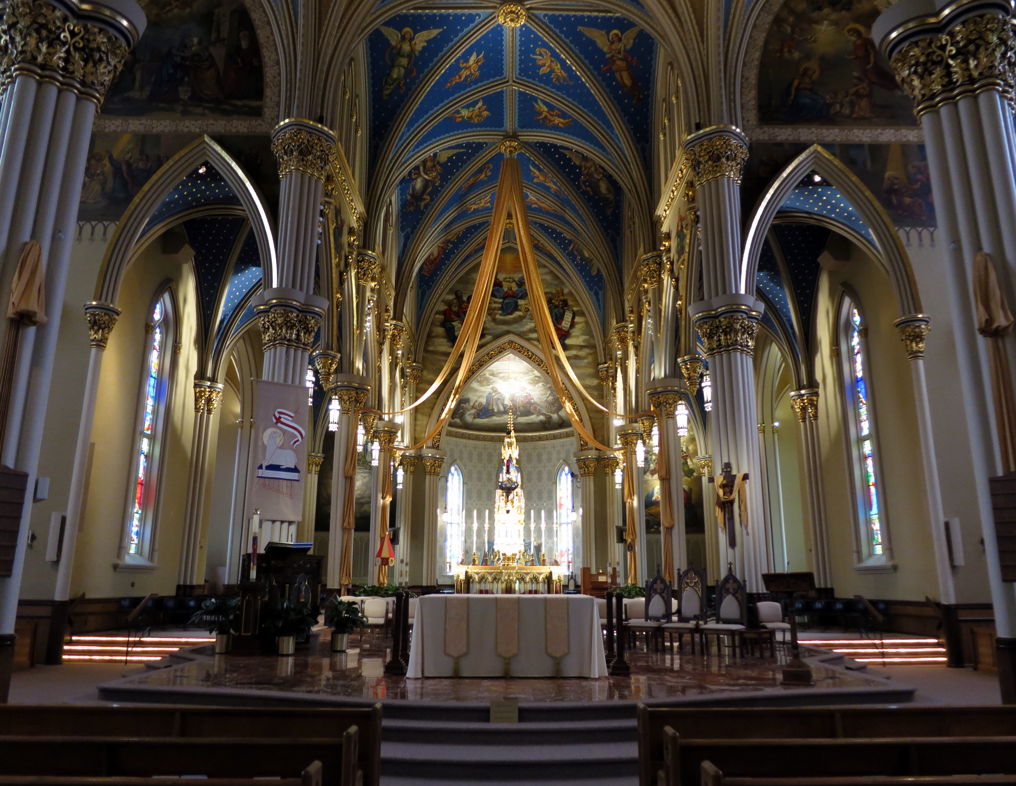 Basilica of the Sacred Heart (Notre Dame, Indiana) - interior, chancel